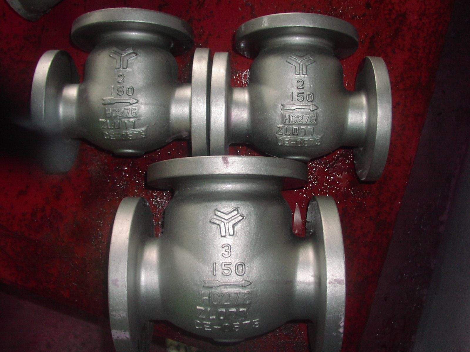 Swing check valves. Valves and are generally made of plastic or steel, the latter being the most widely used in chemical and petrochemical applications. Steel grades range from the most common type, namely carbon steel, with standard stainless steel being the second most common. Stainless steel alloys, which include nickel or copper are used in applications that require higher corrosion or heat resistance. In such cases, the most commonly used valve configurations -- ball valves, gate valves, check valves, globe valves and butterfly valves -- are often forged or cast as duplex valves, super duplex valves, alloy 20 valves, monel valves, inconel valves, incoloy valves and 254 SMO valves (6Mo valves). Titanium valves are also used in some highly corrosive applications. Titanium is not a stainless steel alloy.